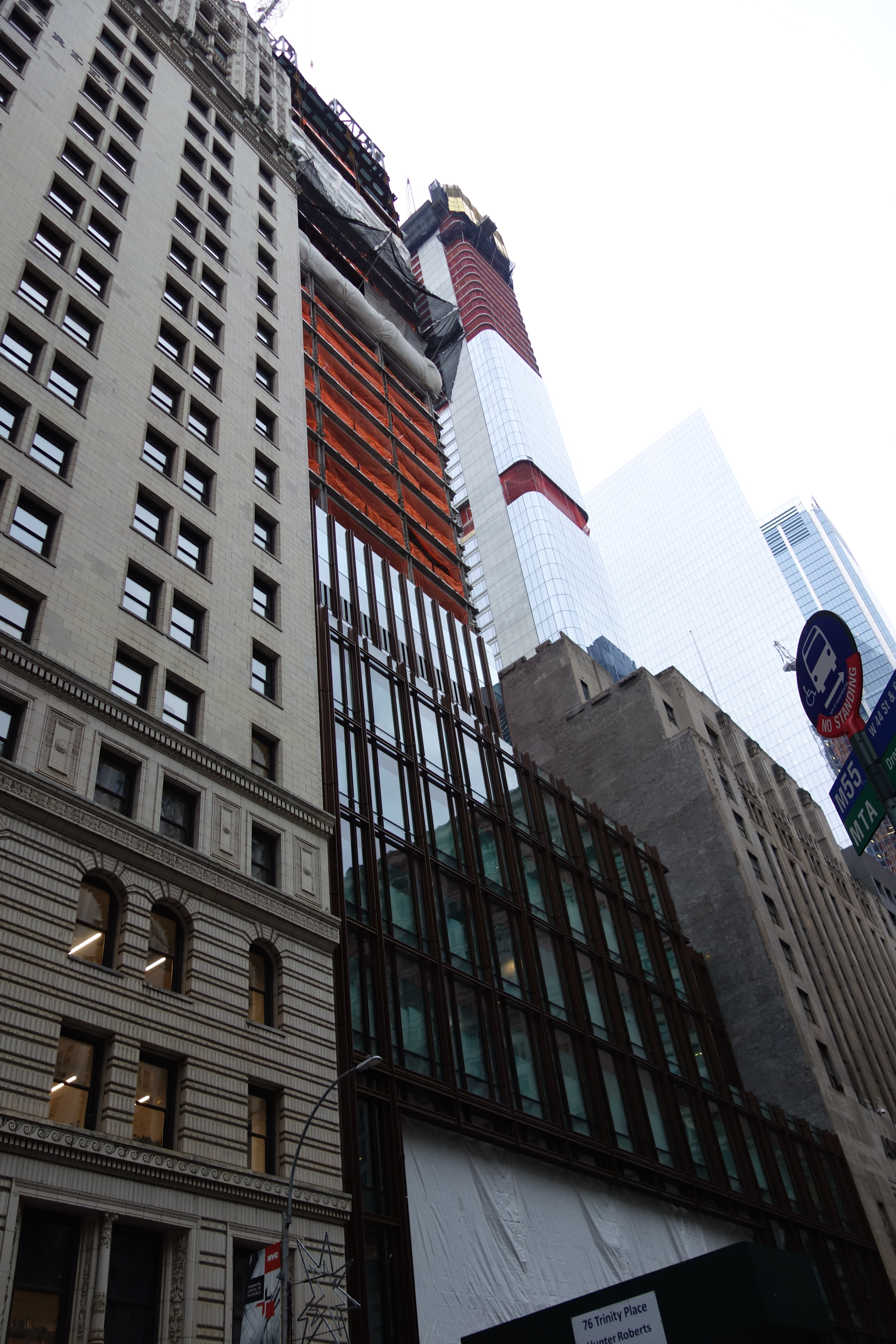 Construction of the 74 Trinity Place 76 Trinity Place tower on the west side of Trinity Place just north of Rector Street in the Financial District, Manhattan. The tower is directly across from Trinity Church, and is being developed by the Trinity Church Realty company. However the building is replacing a potentially-historical Art Deco tower, the previous Trinity Church headquarters, which was demolished to make way for the building. The new tower will feature a bronze outer facade as homage to the original building.